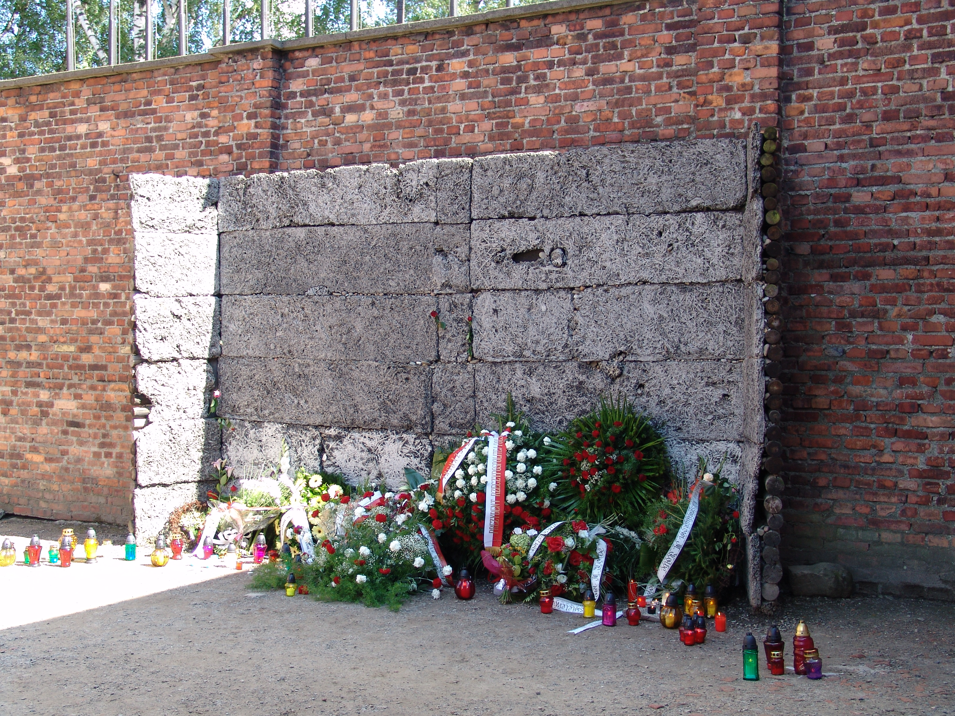 The "Death Wall" in Auschwitz